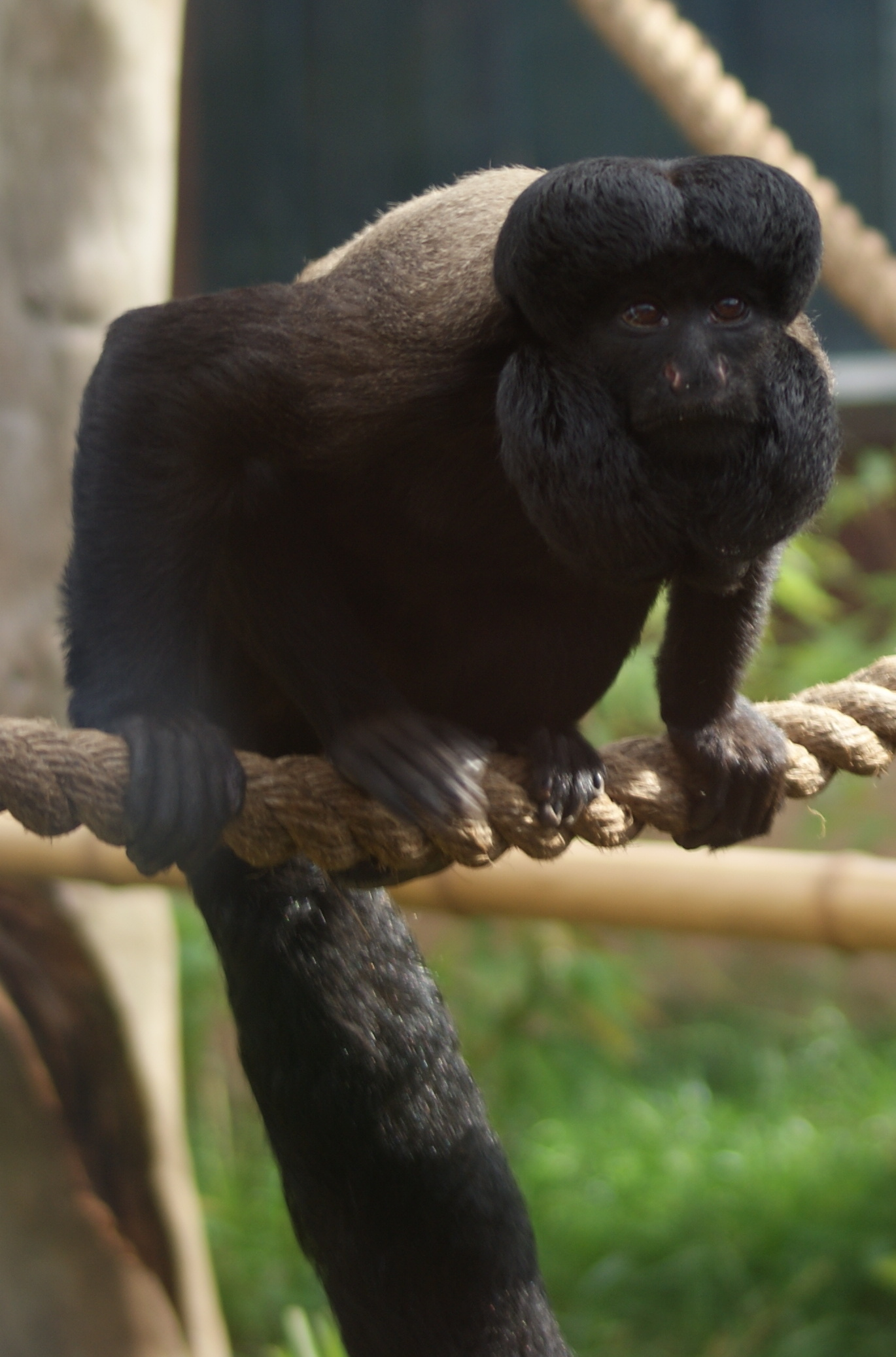 Red-backed Bearded saki (Chiropotes chiropotes or C. sagulatus) in Colchester Zoo. Their animals originate from Guyana